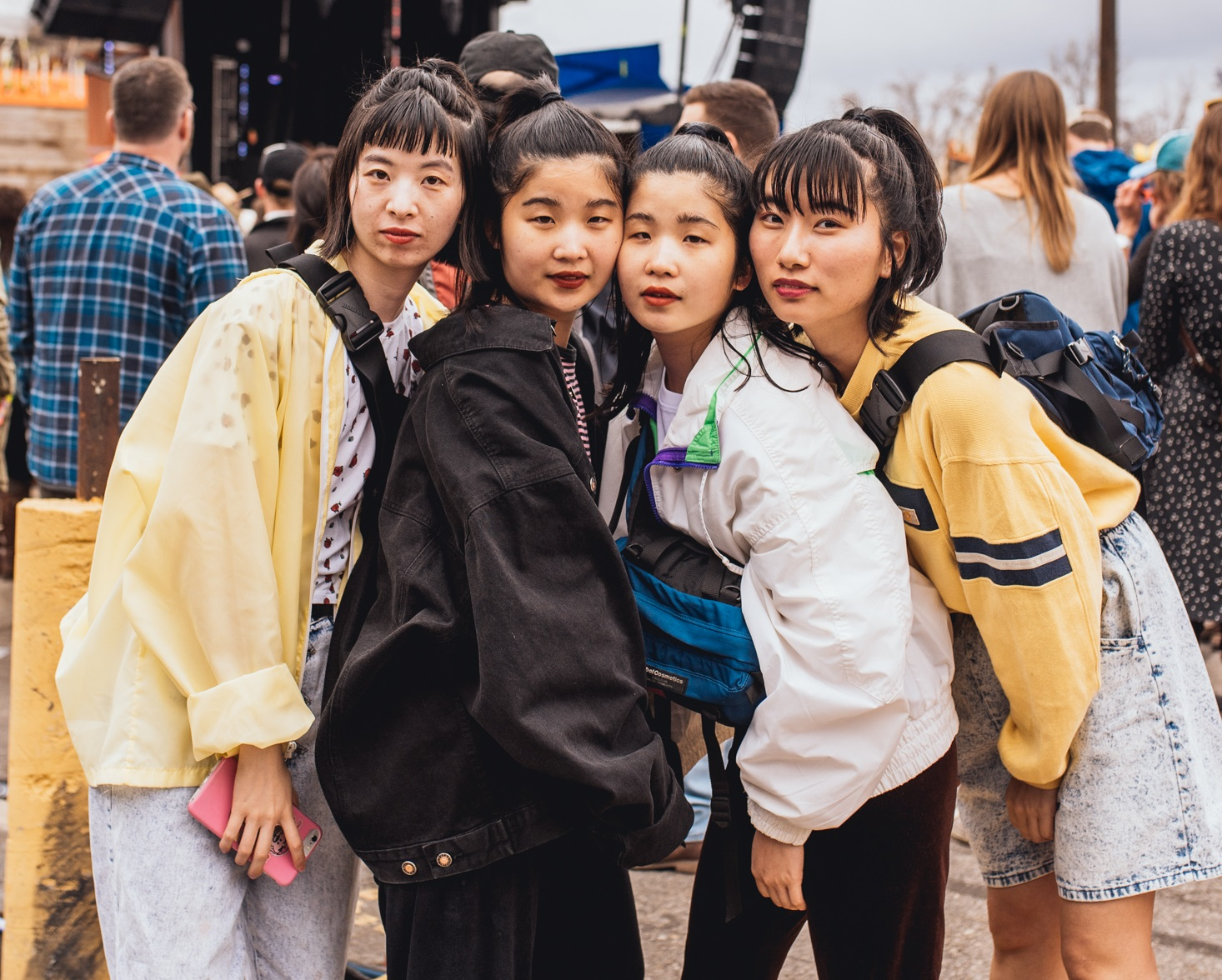 Chai at the Treefort Music Fest in Boise, Idaho on March 22, 2019 (cropped).